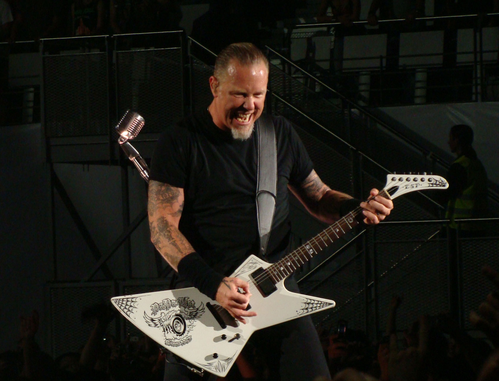 James Hetfield (Metallica)